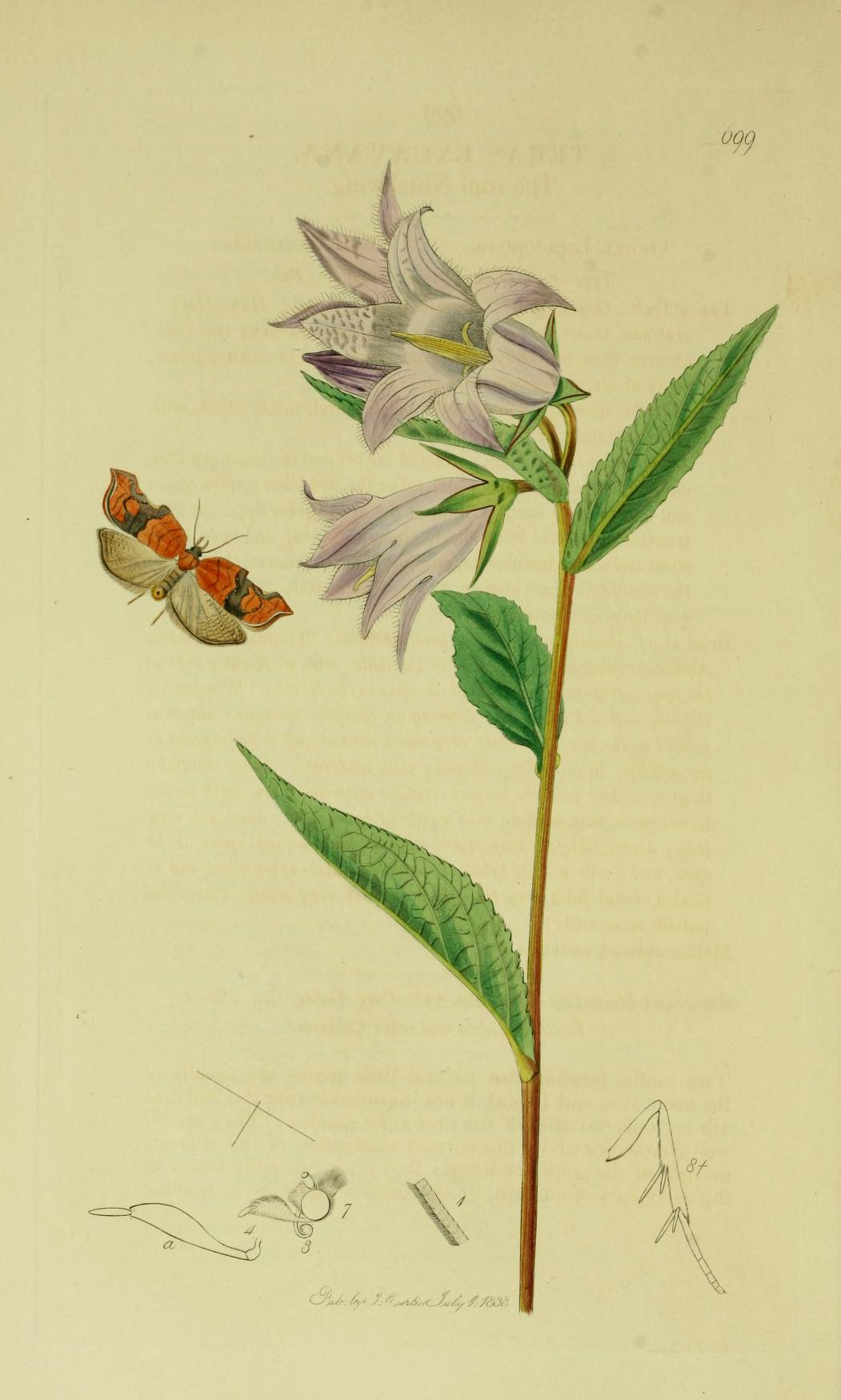 An illustration from British Entomology by John Curtis. Lepidoptera: Teras excavana or Acleris emargana